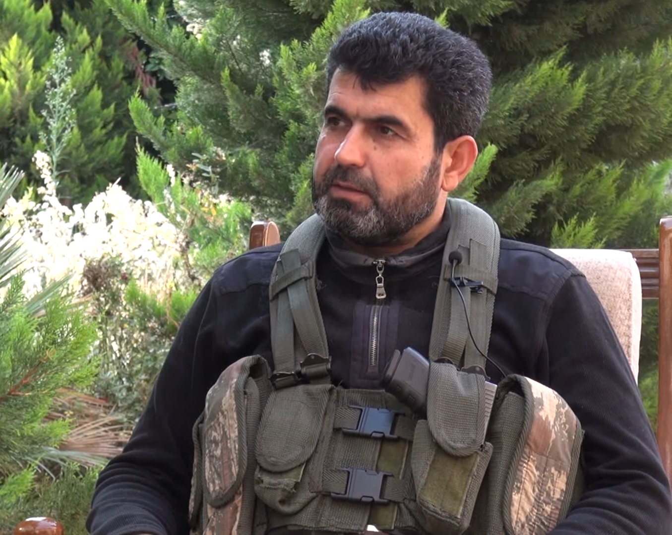 Lt. Col. Muhammad Juma Abdul Qader Bakur (nom de guerre "Abu Bakr"), commander of the 19th Division and the Army of Mujahideen in northwestern Syria during the Syrian Civil War.